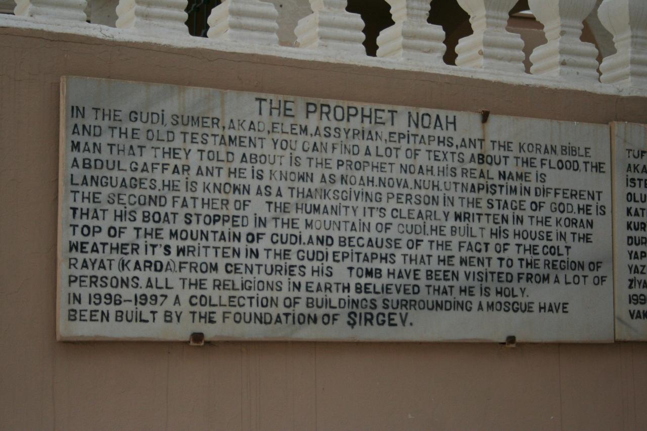 Noah History in Noah Mausoleum in the city of Cizre, Turkey